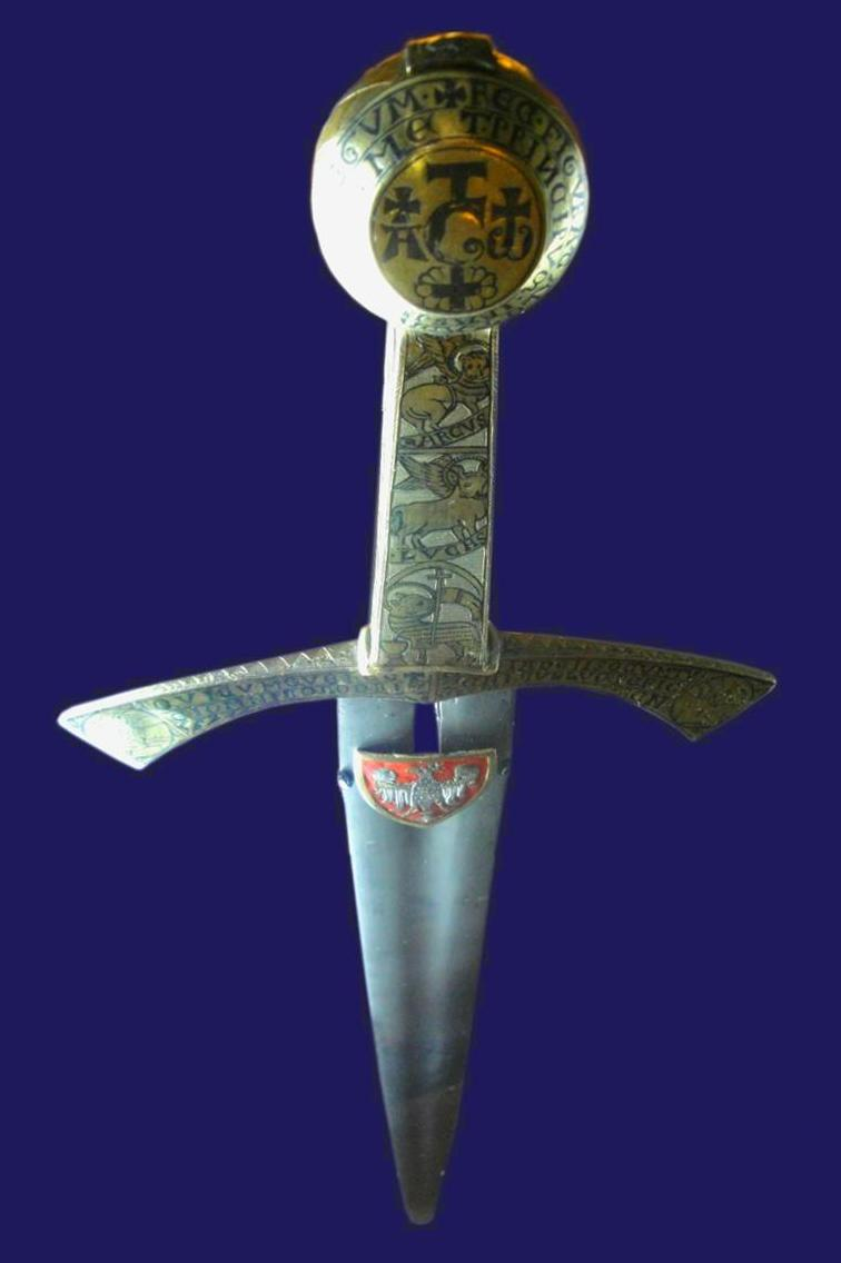 The Szczerbiec (Polish coronation sword; obverse) as displayed in the Wawe Castle